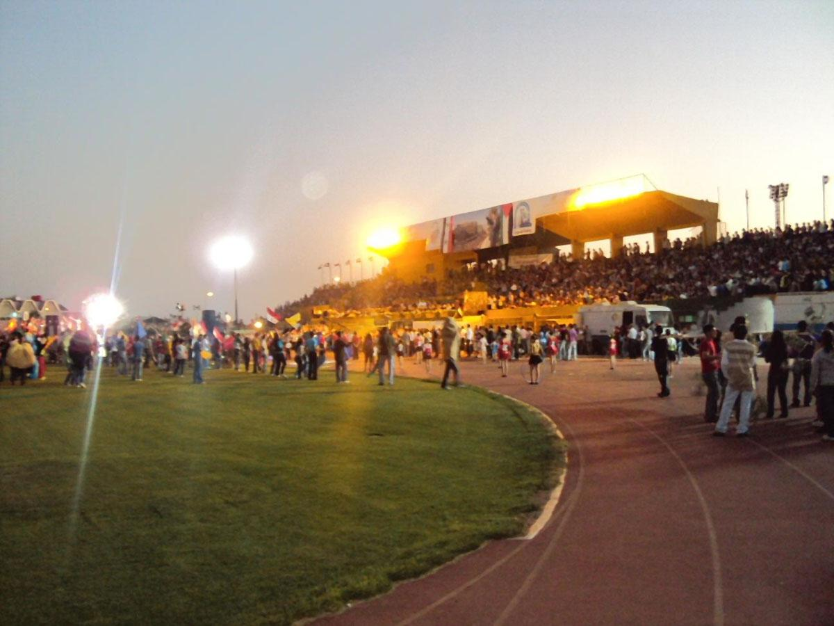 As-Suwayda municipal stadium